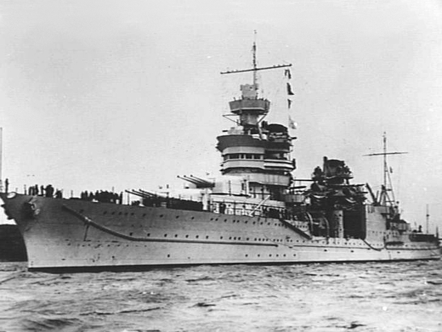 The U.S. Navy heavy cruiser USS Portland (CA-33) at Sydney, Australia, in 1941.